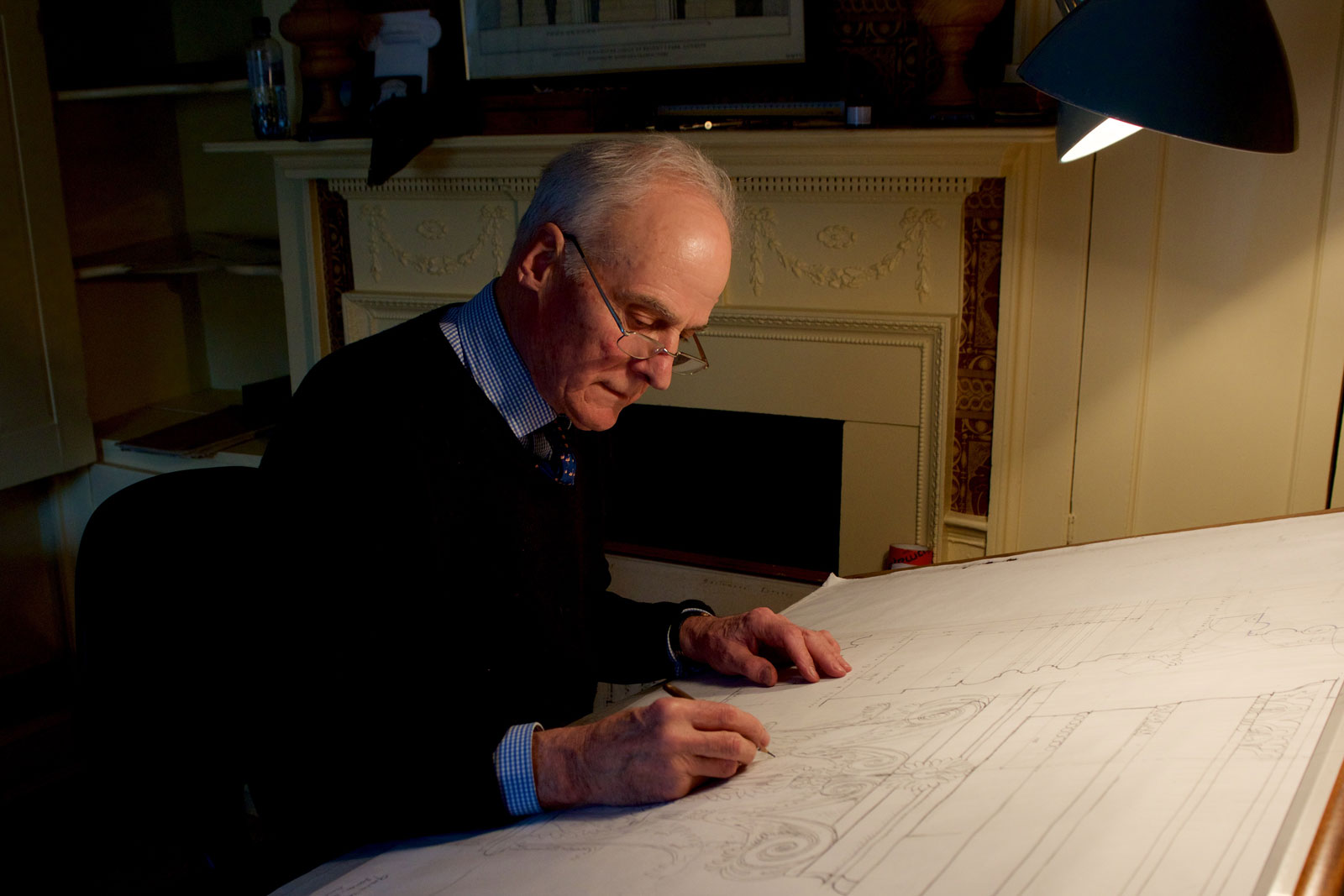 Architect Quinlan Terry at work in 2018